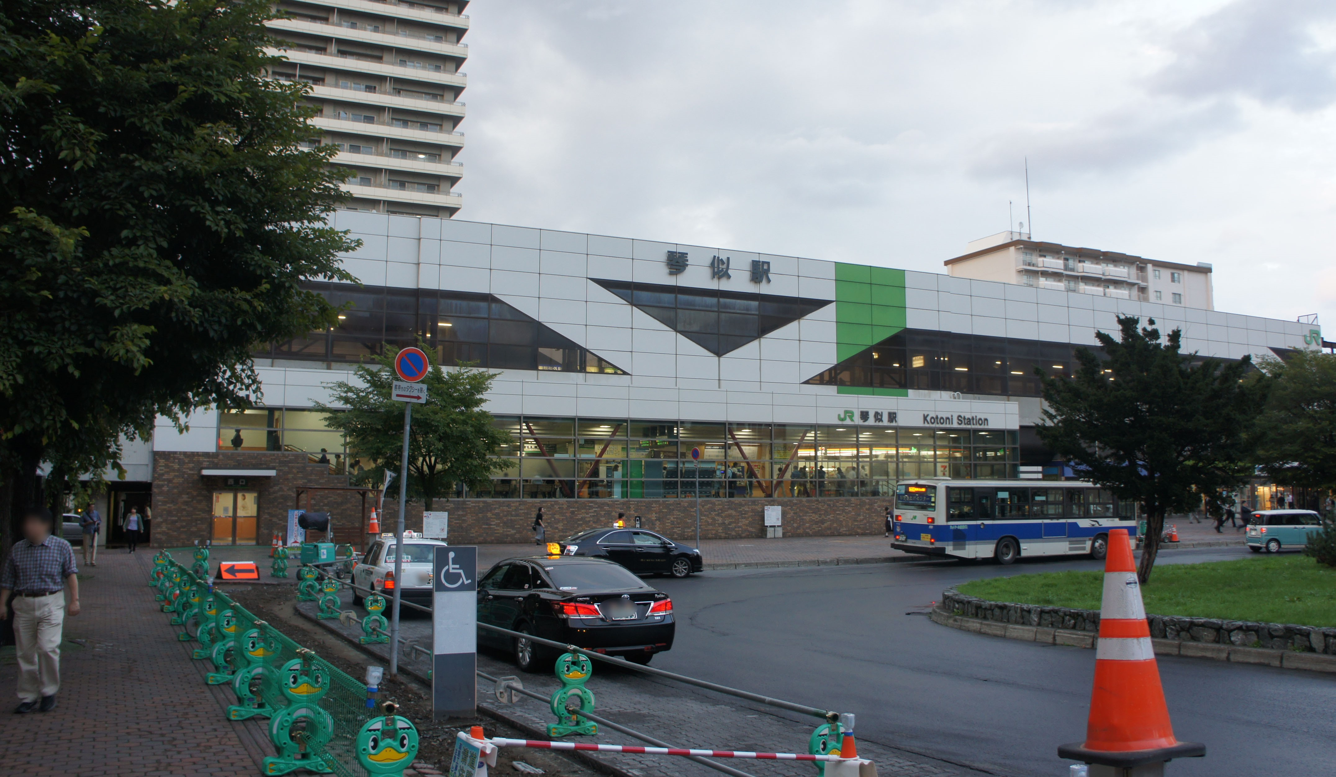 Station-name signboard of JR Hakodate-Main-Line Kotoni Station